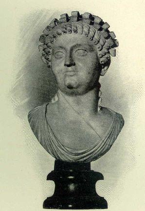 From the bust in the Capitoline Museum, Rome. Statilia Messalina, third wife of Nero.